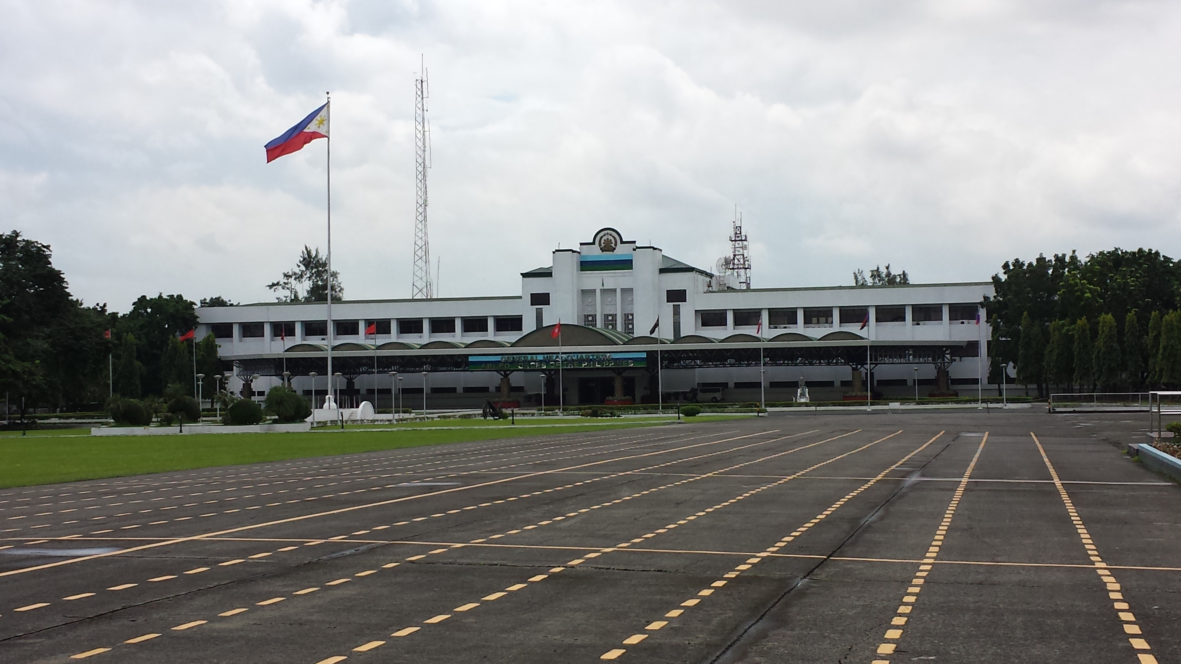 AFP Chief of Staff celebrates the 35th NRW by conducting a Tree Planting CMO with reservists from the 105th TASG, AFPRESCOM last Sept 6, 2014.